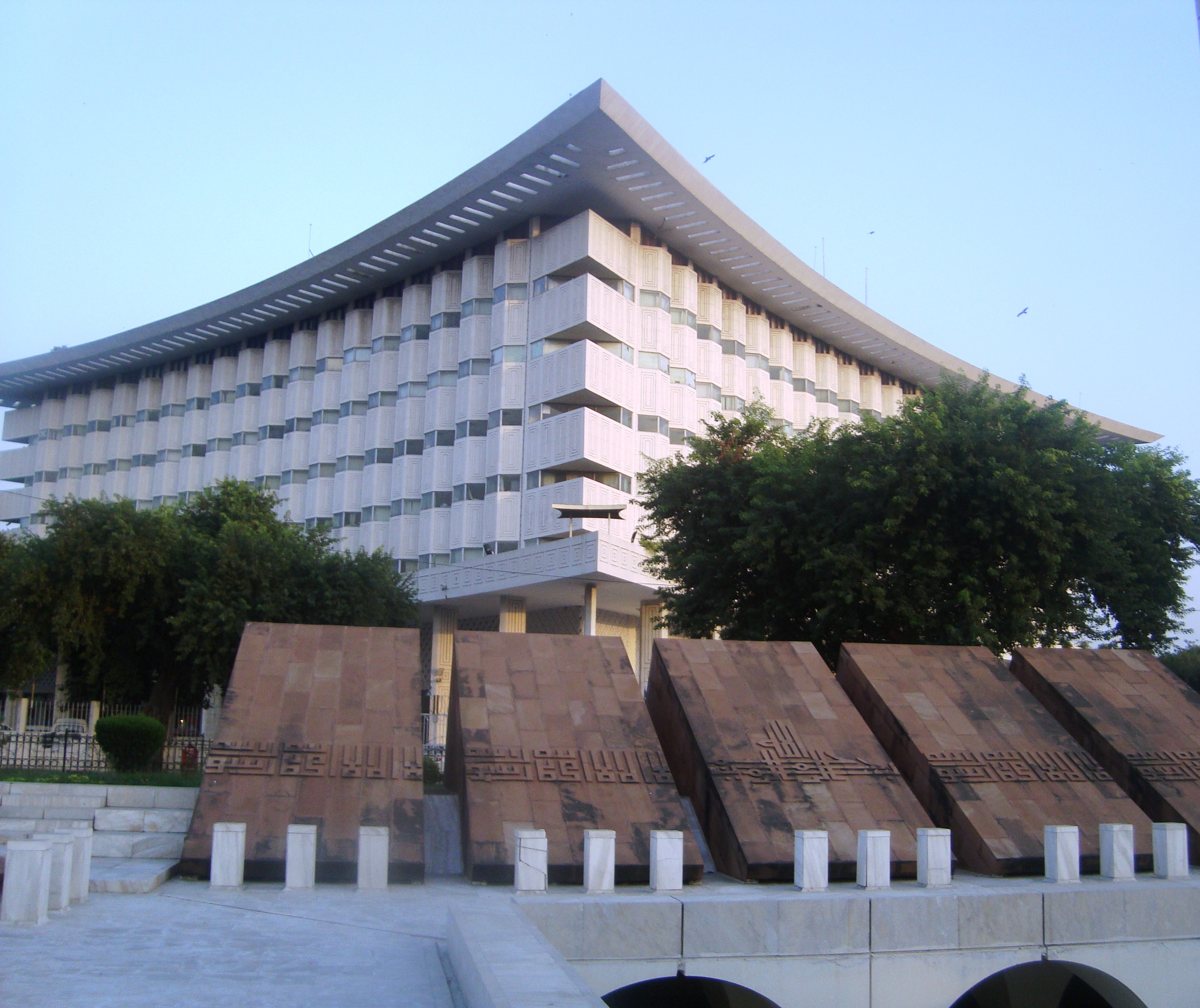 Islamic Summit Minar This is a photo of a monument in Pakistan identified as the PB-93